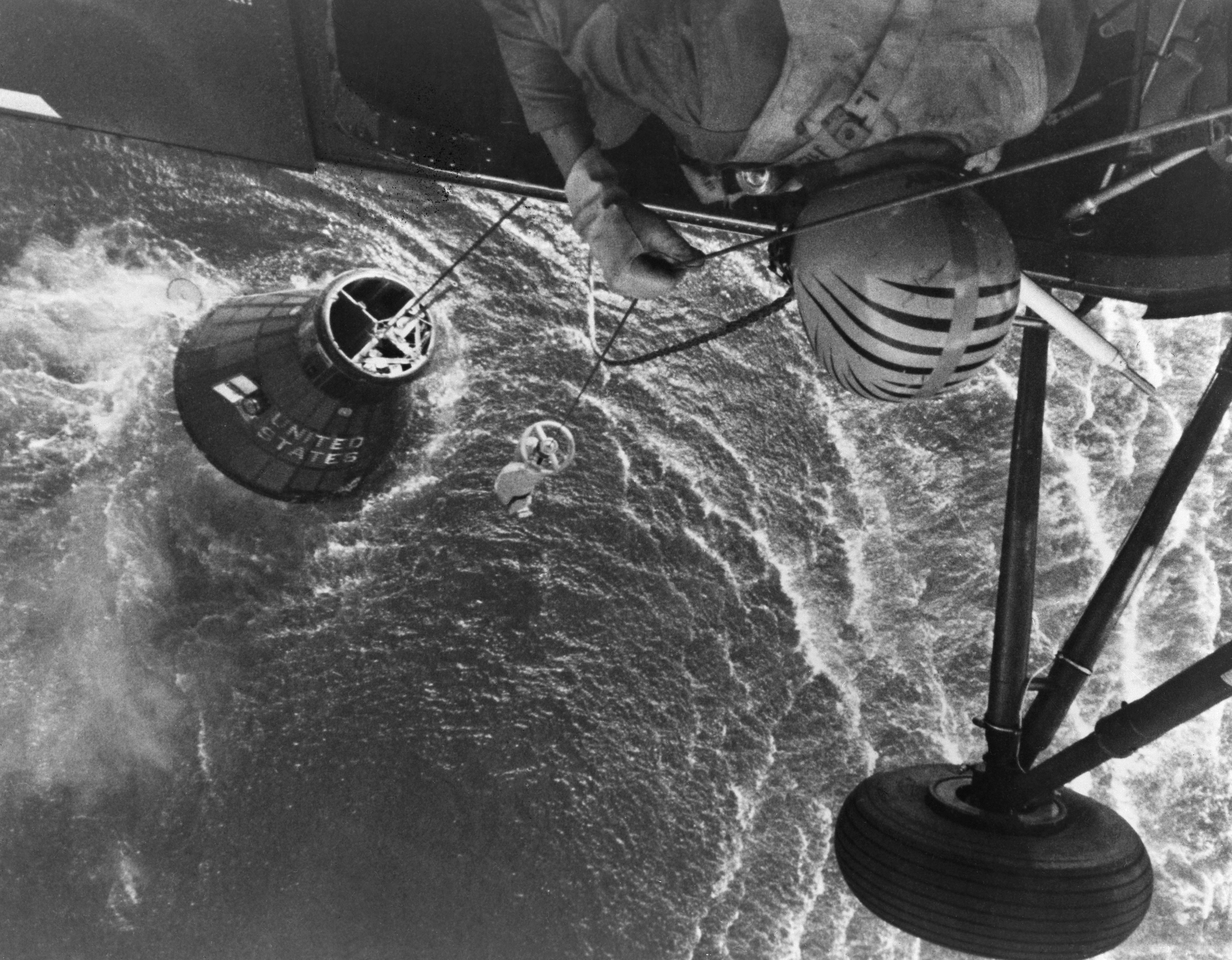 Scope and content: Original caption: Marine helicopter has hooked the Liberty Bell 7 spacecraft and appears to have it in tow. Minutes later it was released because of its being full of sea water after going under once. This was the second U.S. man-in-space flight. (NASA Photo)